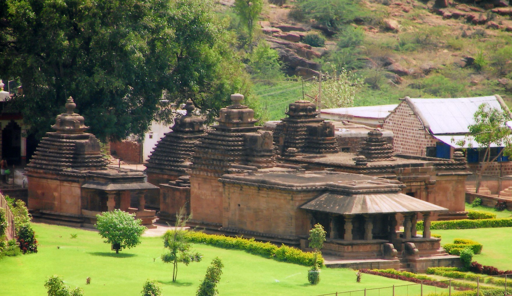 The Mallikarjuna group of temples at Badami (facing the Badami tank), Karnataka, India, is a 11th century Western Chalukya construction. It uses the "Kadamba Sikhara" style of towers over the shrines